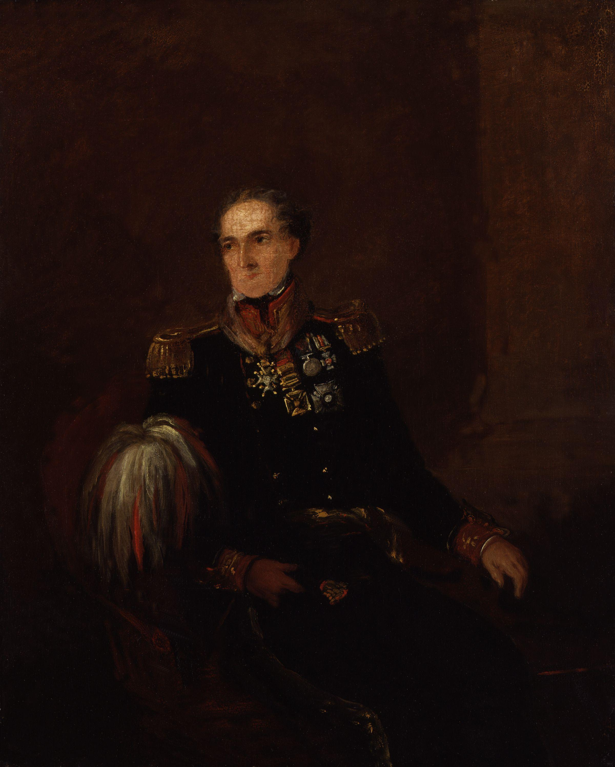 Sir Robert William Gardiner, by William Salter (died 1875). All images in this batch have been confirmed as author died before 1939 according to the official death date listed by the NPG.